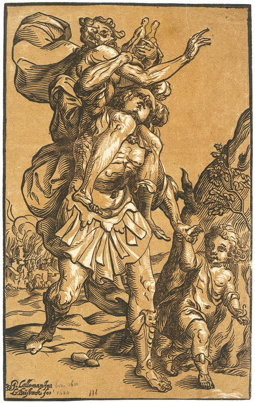 Chiaroscuro Woodcut